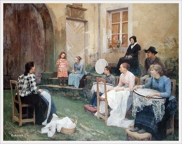 Jean-Paul Sinibaldi (French, 1857-1909) «Memory of Franche-Comte»